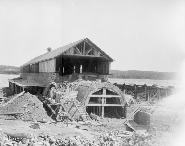 The Mira River Brick Works - Kiln buildings, NS - 1910. The Mira River Brick Works was located on the shores of the Mira River, on Cape Breton Island, Nova Scotia, Canada.